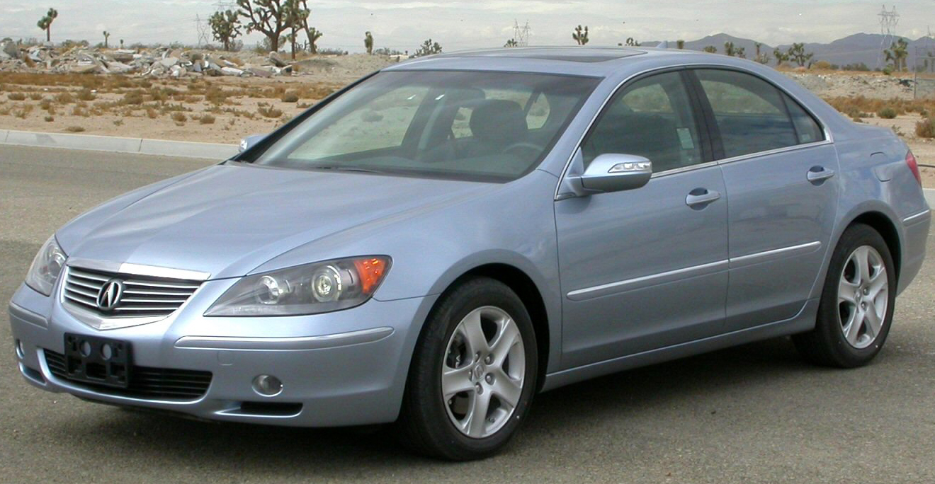 2005 Acura RL photographed in USA.